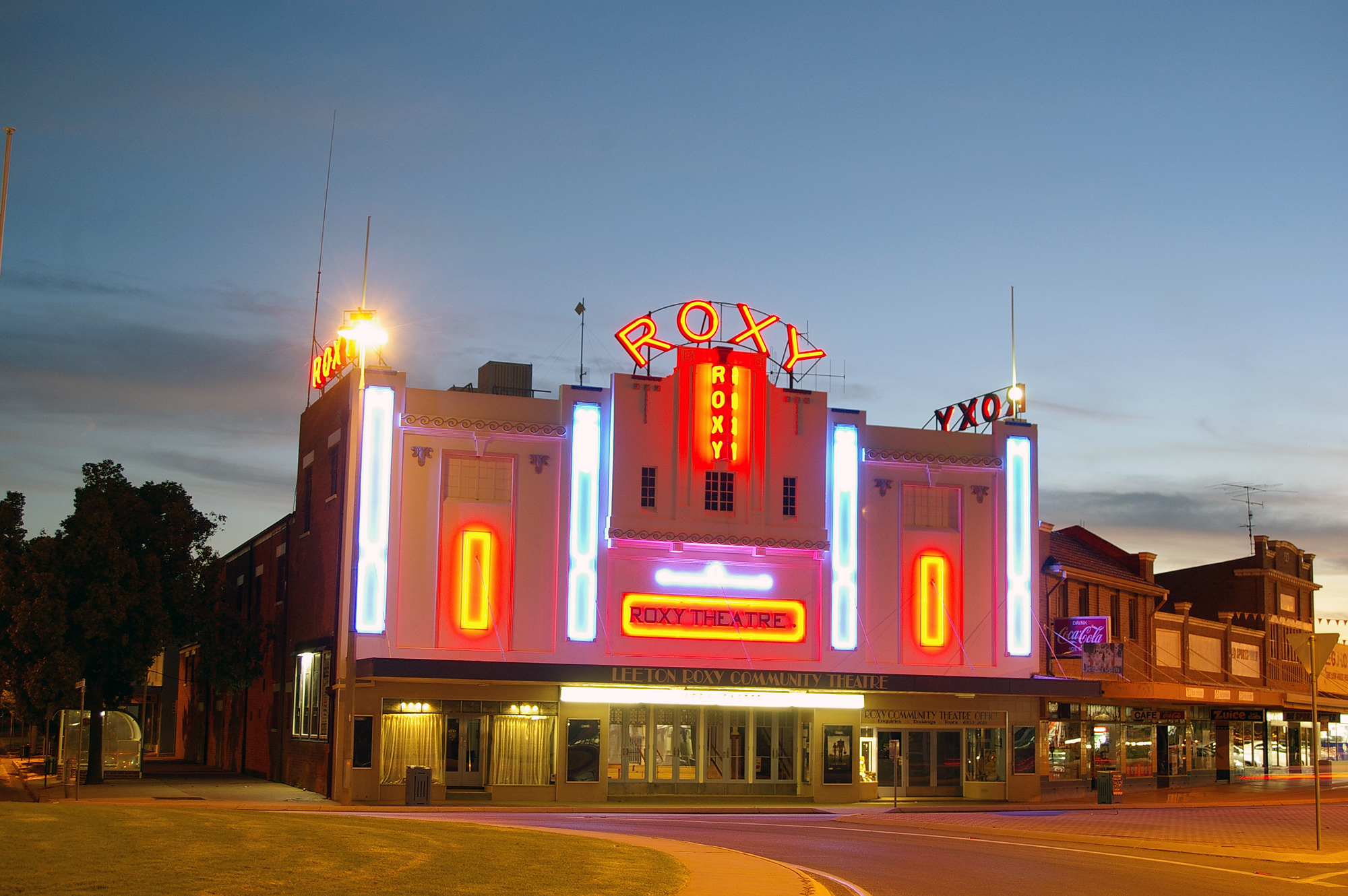 The Roxy Community Theatre at dusk in Leeton, New South Wales.